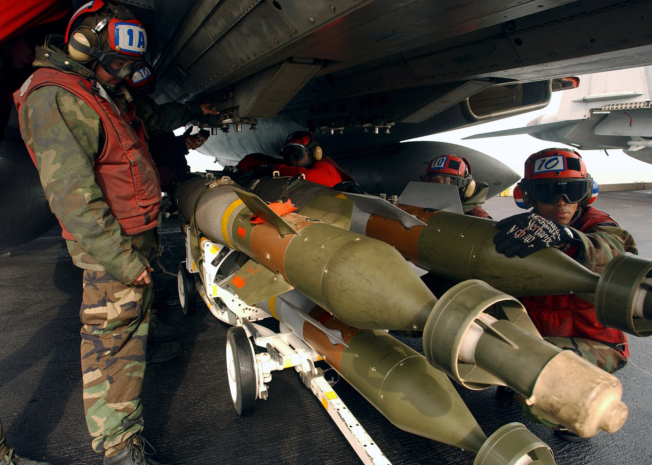 Persian Gulf (Jan. 12, 2005) – Aviation Ordnancemen, assigned to the "Swordsmen" of Fighter Squadron 32 (VF-32), prepare to load 500-pound laser guided bombs (GBU-12) onto weapon pylons under an F-14B Tomcat during combat mission preparations aboard USS Harry S. Truman (CVN 75). The Nimitz-class aircraft carrier and her embarked Carrier Air Wing Three (CVW-3) are providing close air support and conducting intelligence, surveillance and reconnaissance (ISR) missions over Iraq. The Truman Carrier Strike Group is on a regularly scheduled deployment in support of the Global War on Terrorism.